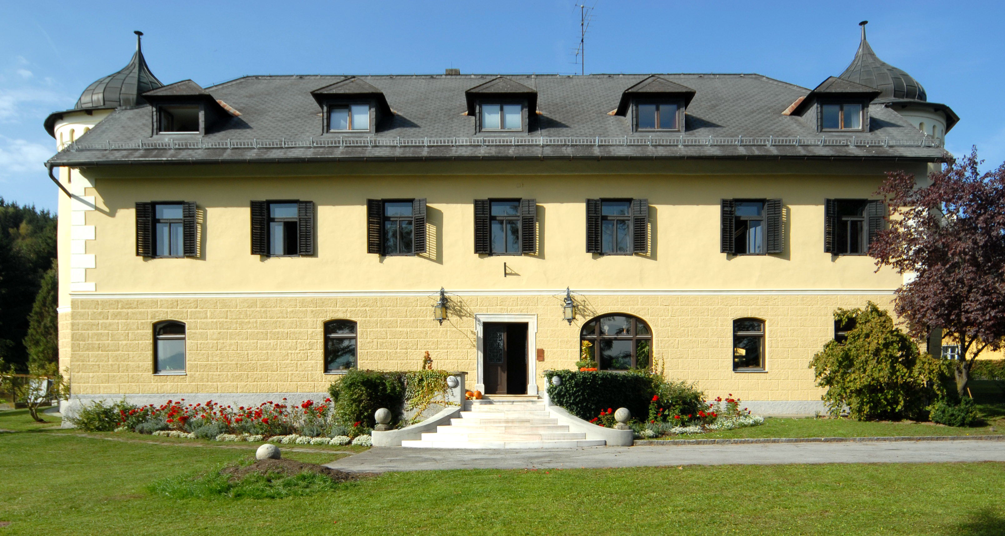 Castle on Schlossweg #2 at Hunnenbrunn, municipality Frauenstein, district Sankt Veit an der Glan, Carinthia / Austria / EU